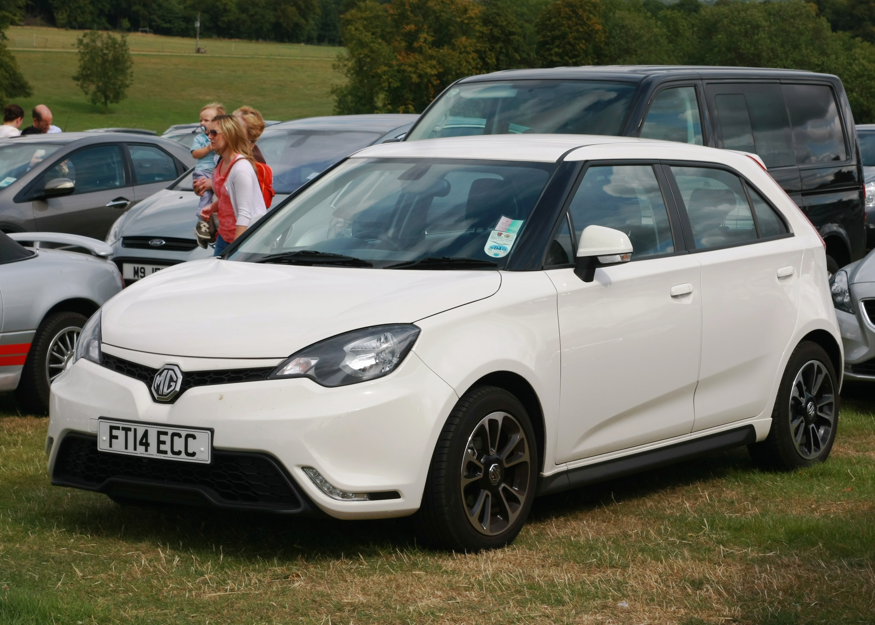 MG 3 (2014) at Knebworth (2014)